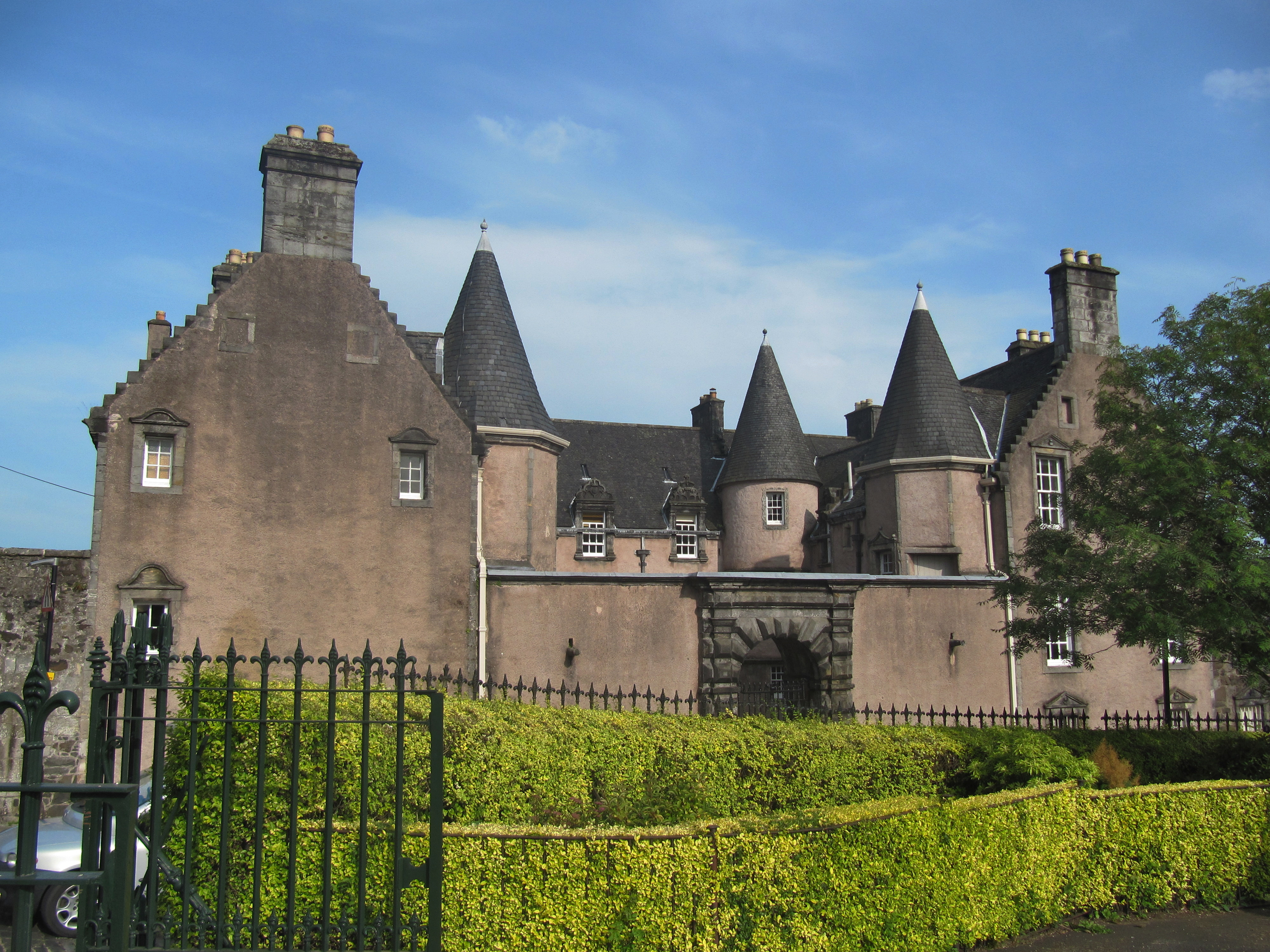 Stirling, Argyll’s Lodging